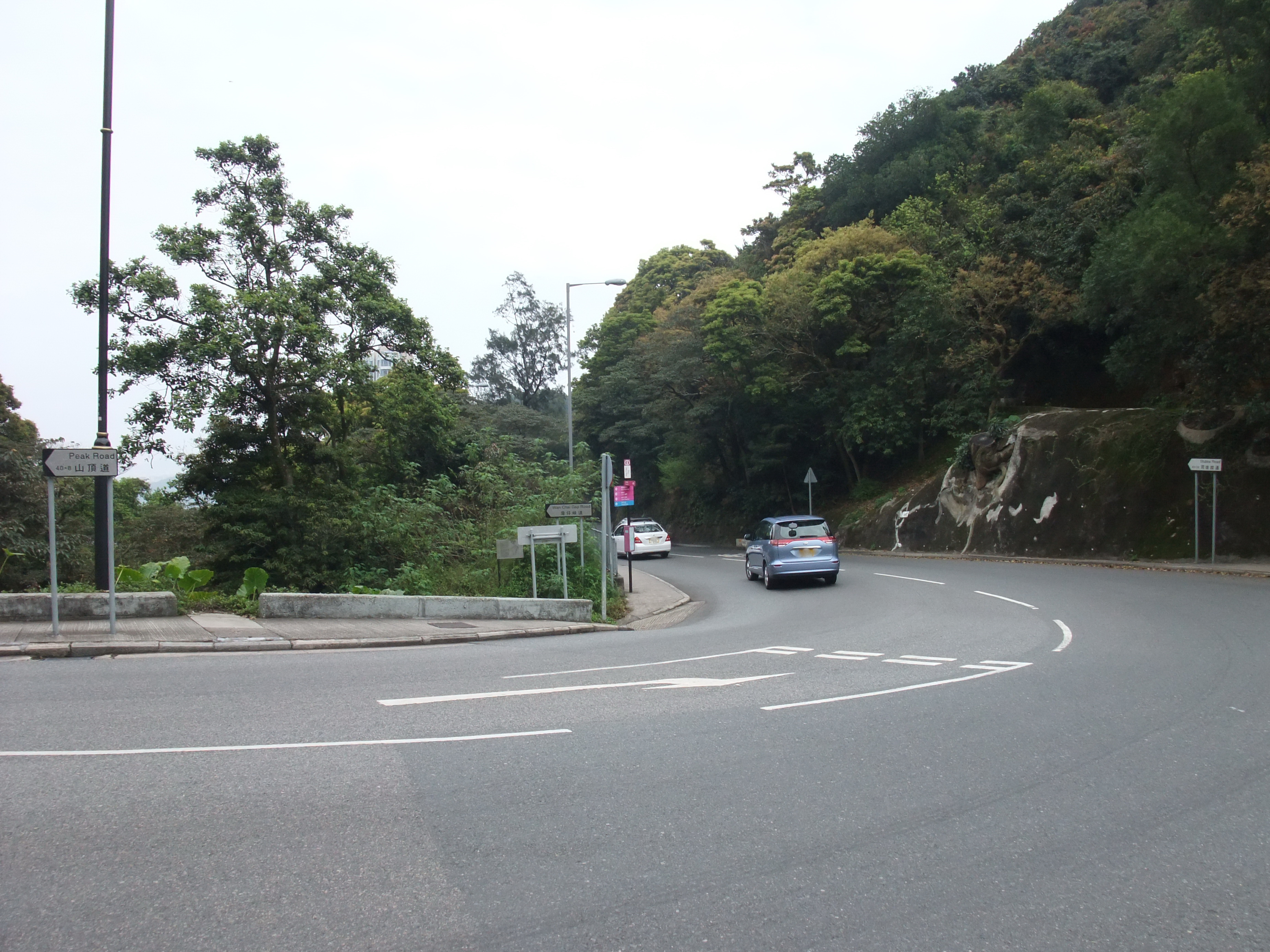 Peak Road near Wan Chai Gap Park. This is the intersection of seven roads including Wan Chai Gap Road, Stubbs Road, Black's Link, Middle Gap Road, Mount Cameron Road, and Coombe Road.